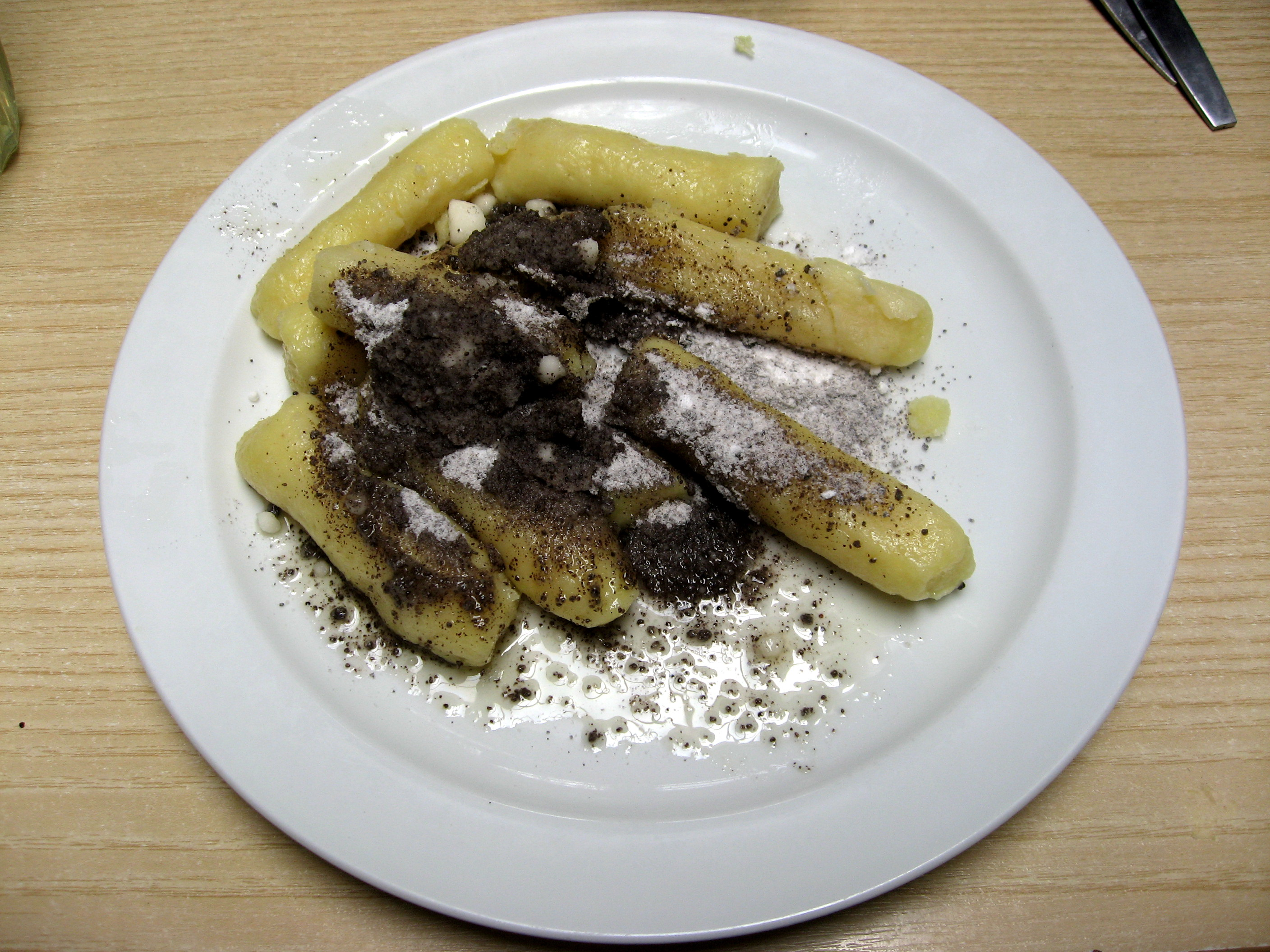 potato cones with poppy and sugar